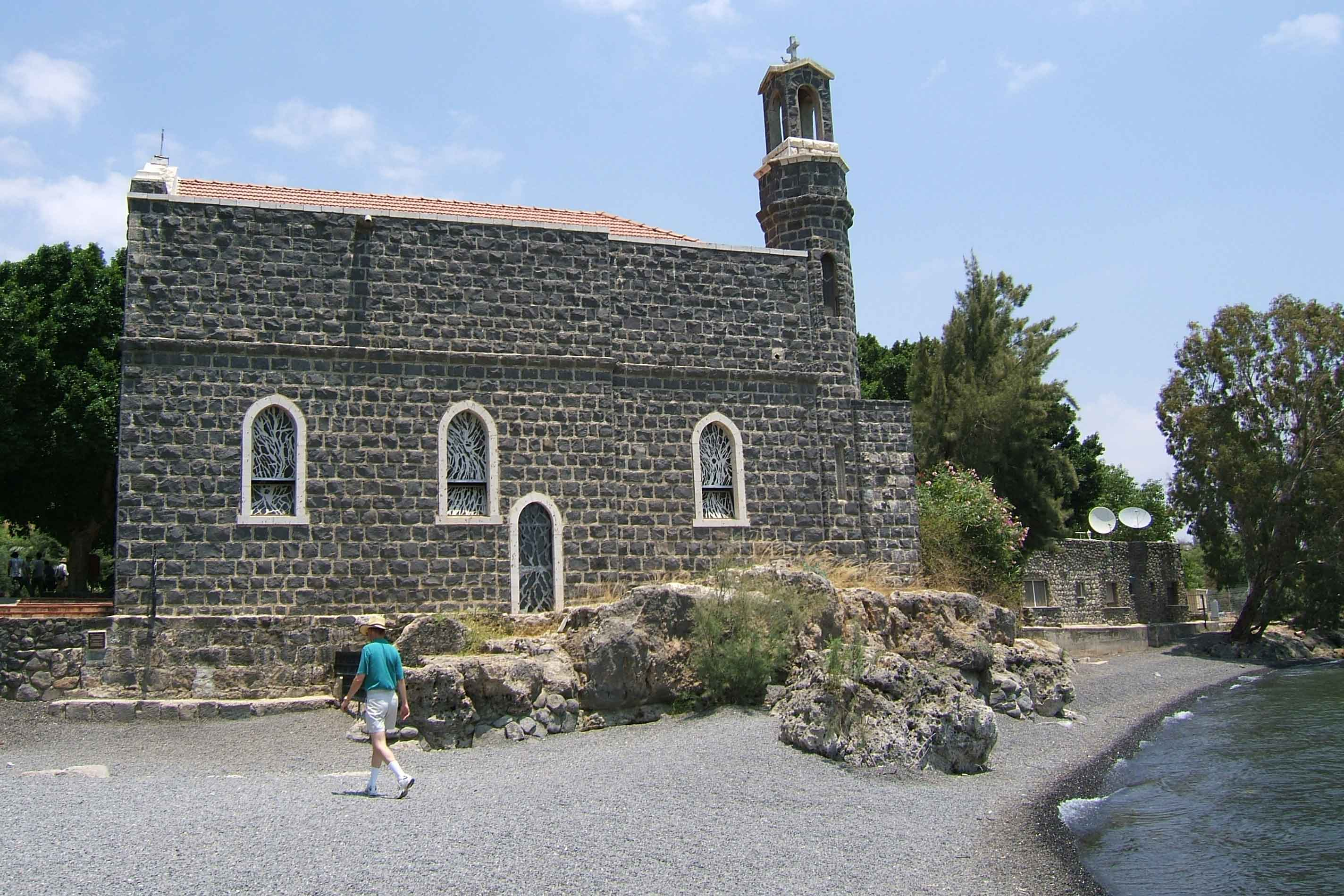 Church of the Primacy of St. Peter on the Sea of Galilee. The traditional site where Jesus Christ appeared to his disciples after his resurrection and, according to Catholic tradition, established Peter's supreme jurisdiction over the Christian church. Picture taken by me, User:Bantosh in Israel 2005.